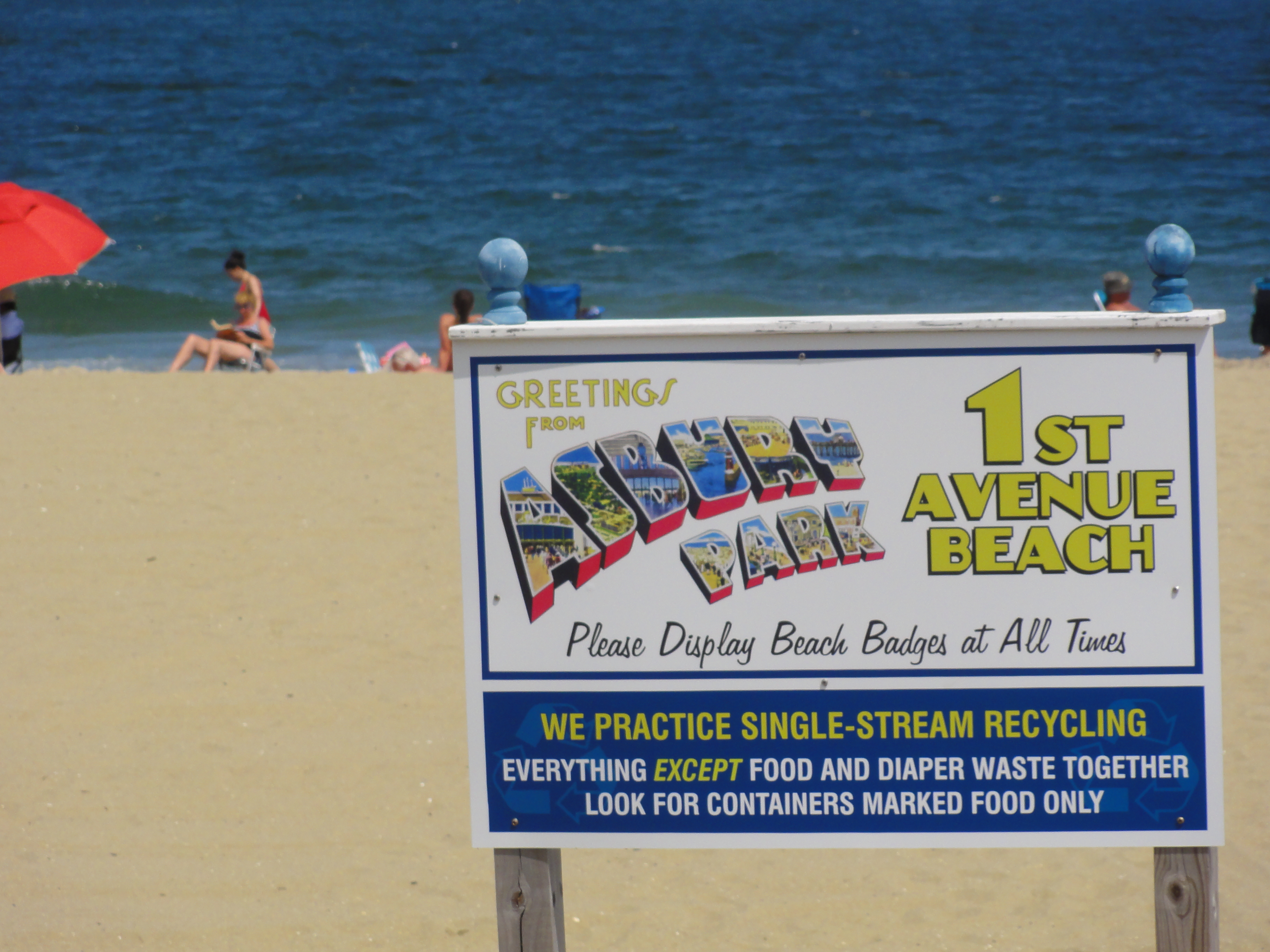 Sign on the beach in Asbury Park.